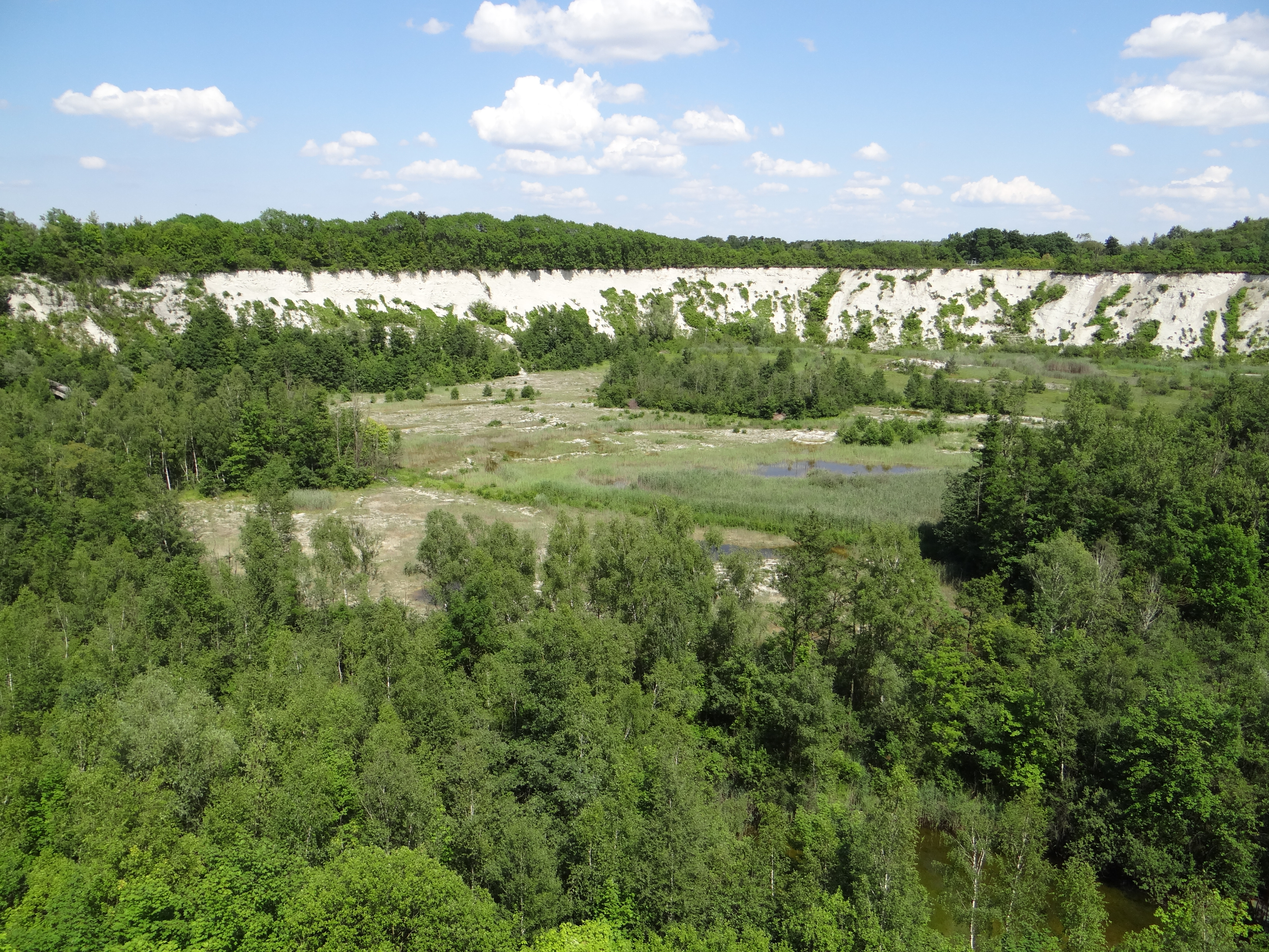 Marl pit in Hannover, Germany.